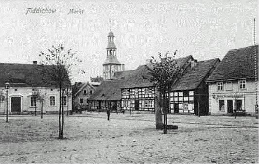 Widuchowa Market place (1905).